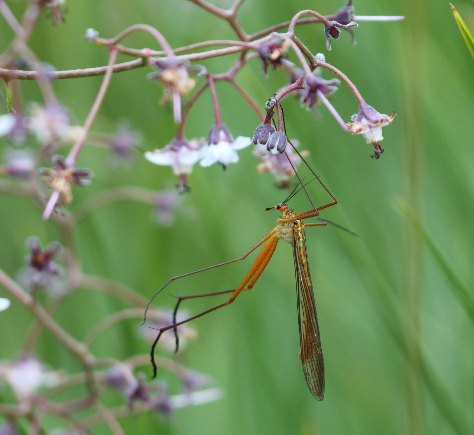 A hangingfly, Bittacus kimminsi in Kamberg Game Reserve, KwaZulu-Natal Drakensberg.